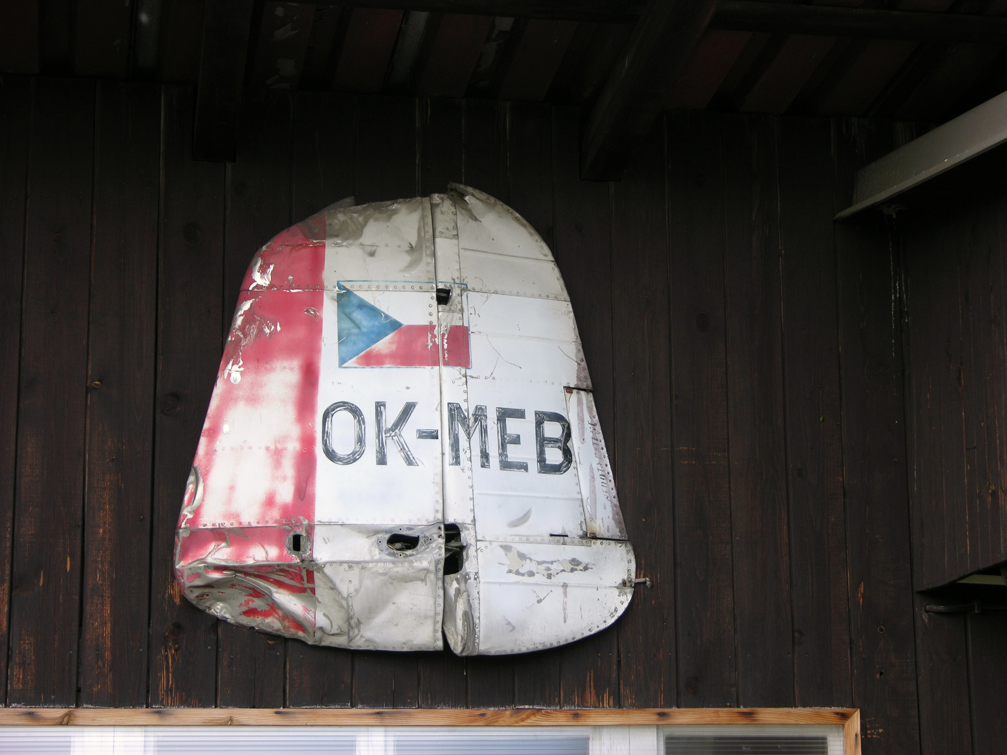 The building this fin was mounted on was in pretty much the same state as the piece of aeroplane itself.